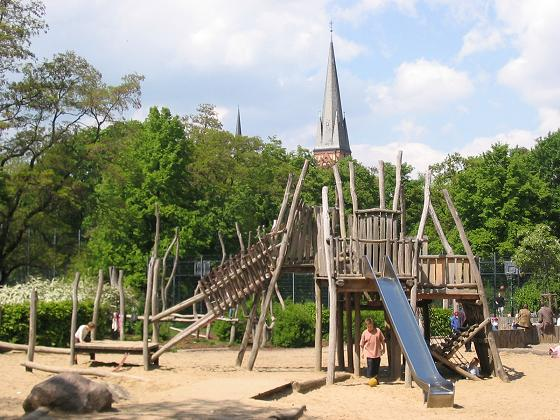 Volkspark Wilmersdorf in Berlin; playground